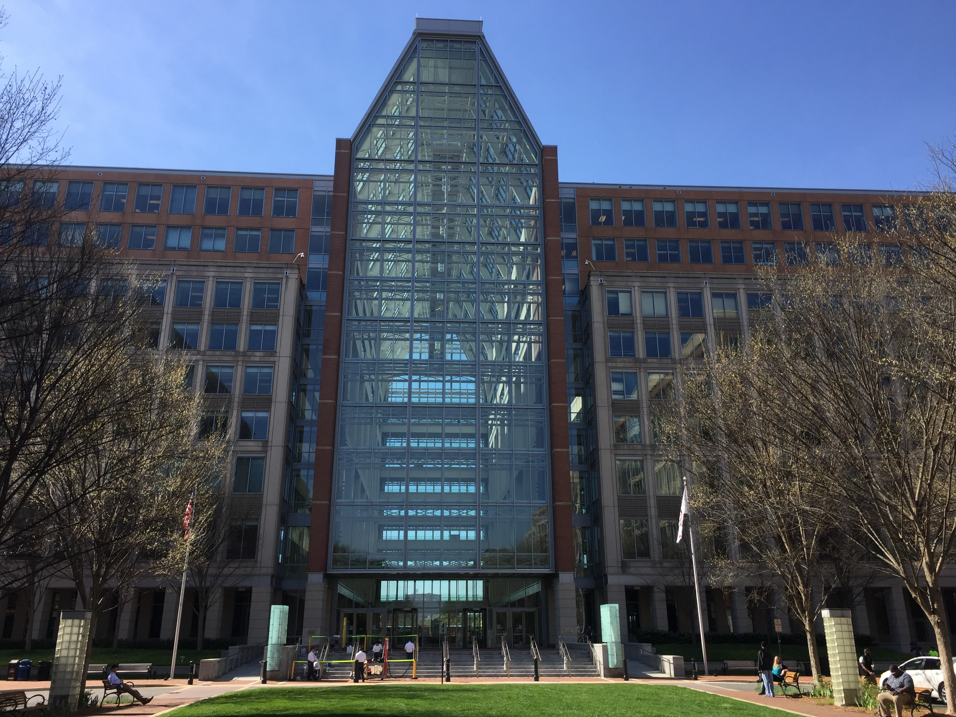 US Patent Office main building atrium